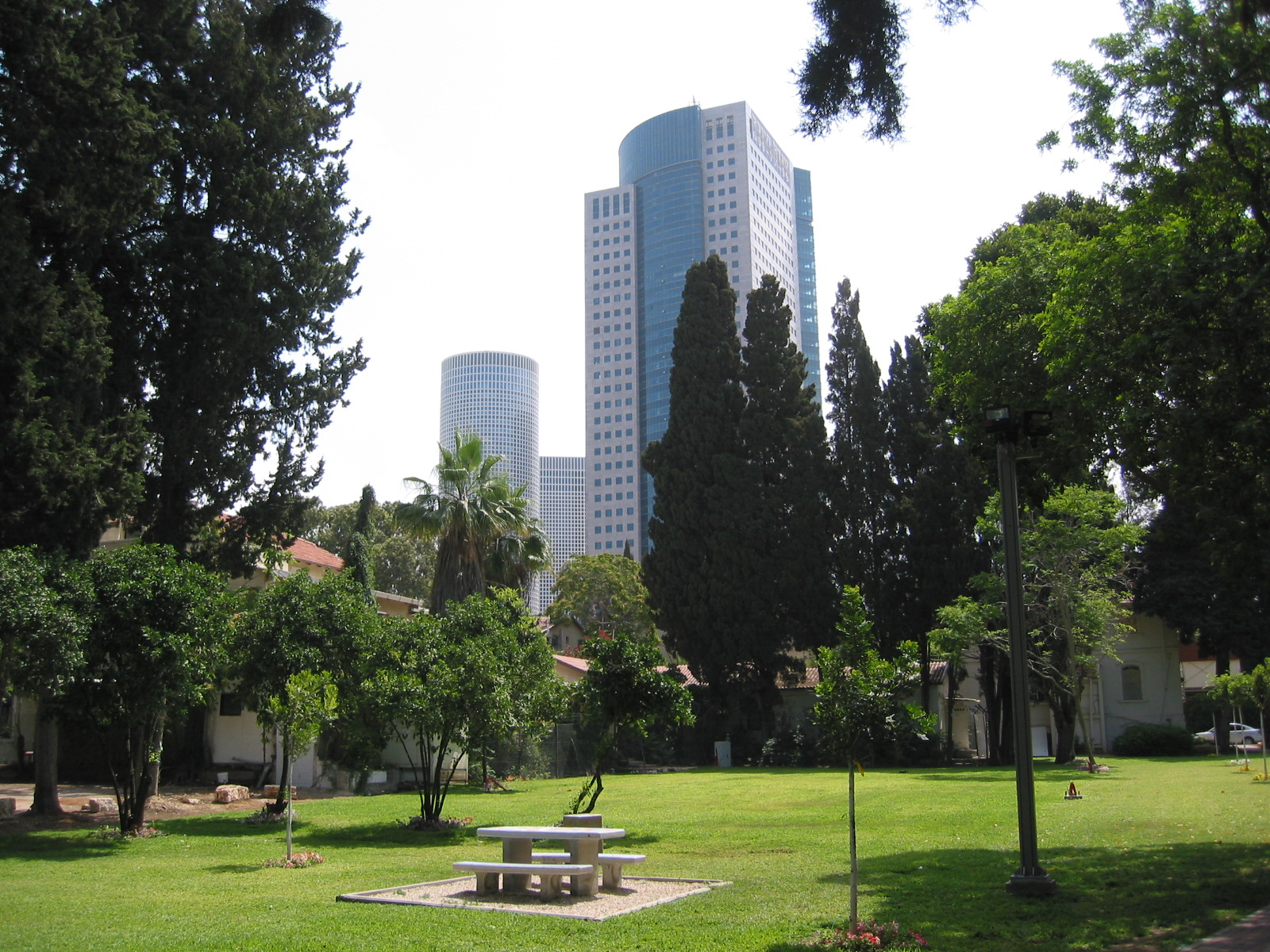 Sarona, Templer Colony in Tel Aviv